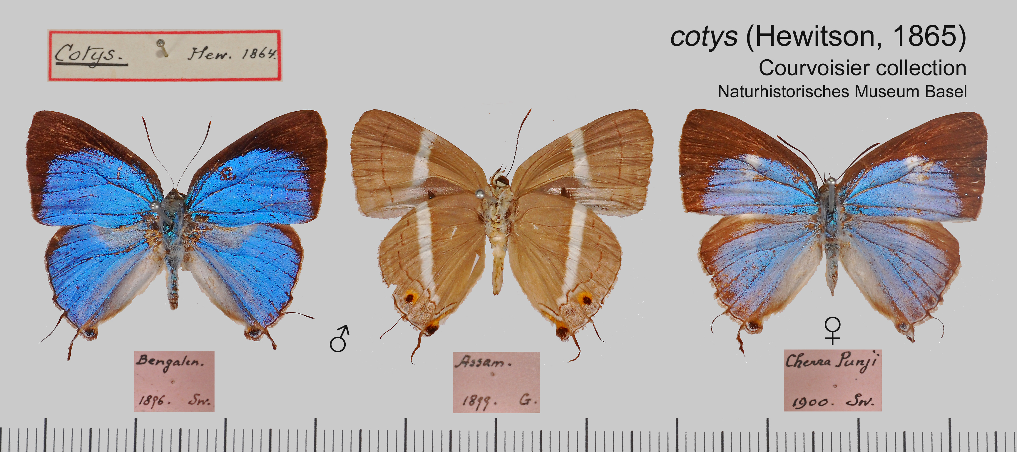 Dacalana cotys, male, female, India, Assam, Courvoisier collection NHM Basel, Alan Cassidy photo.